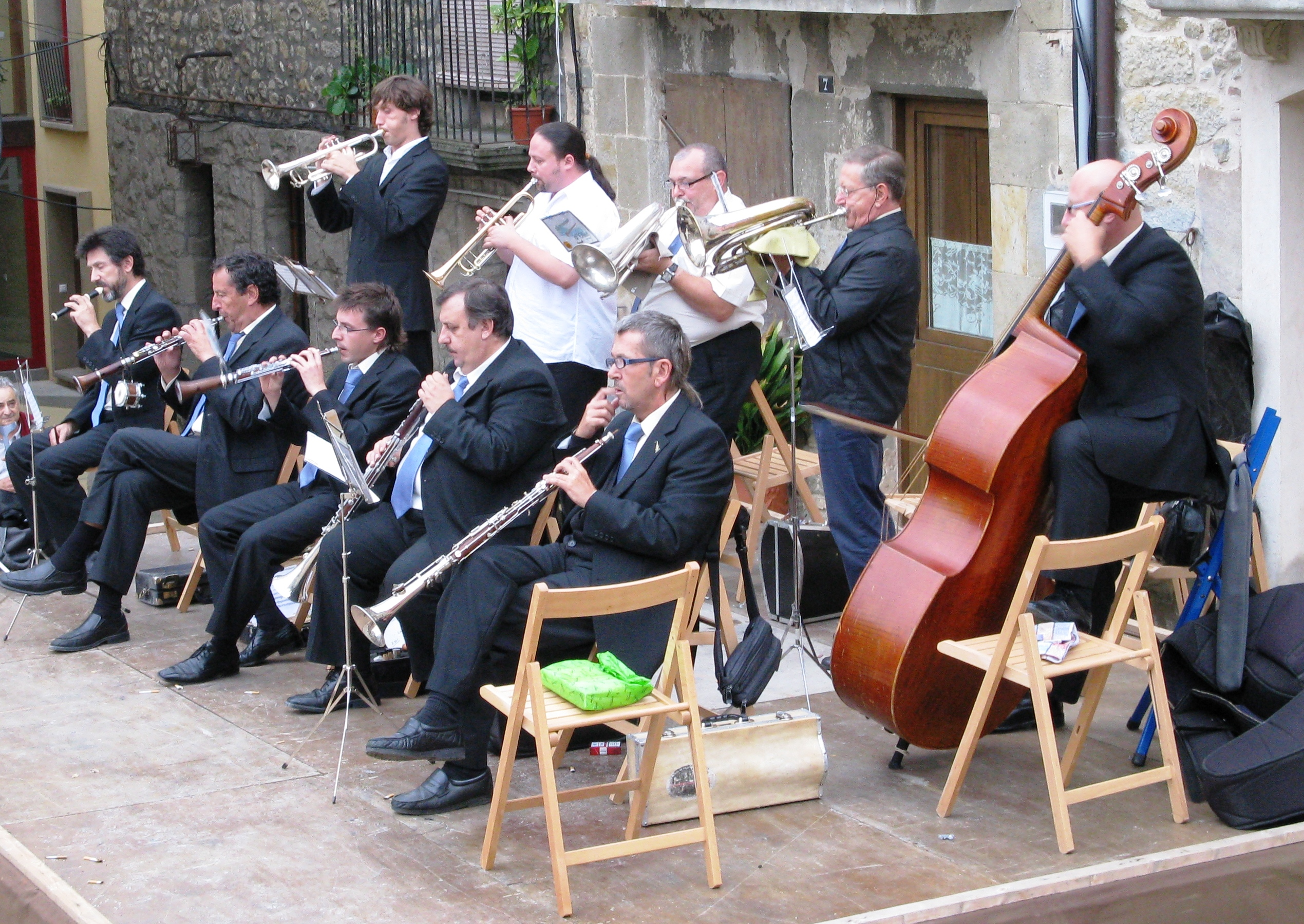 The Cobla "La Principal d'Olot"